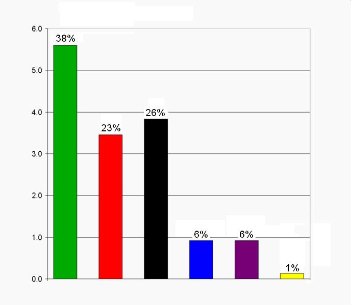 Composition of global electricity generation in 2004 Oil Natural Gas Coal Hydroelectric Nuclear Geothermal, Solar, Wind, and Wood